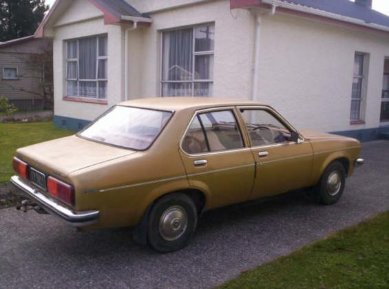 1978–1980 Holden UC Sunbird sedan.